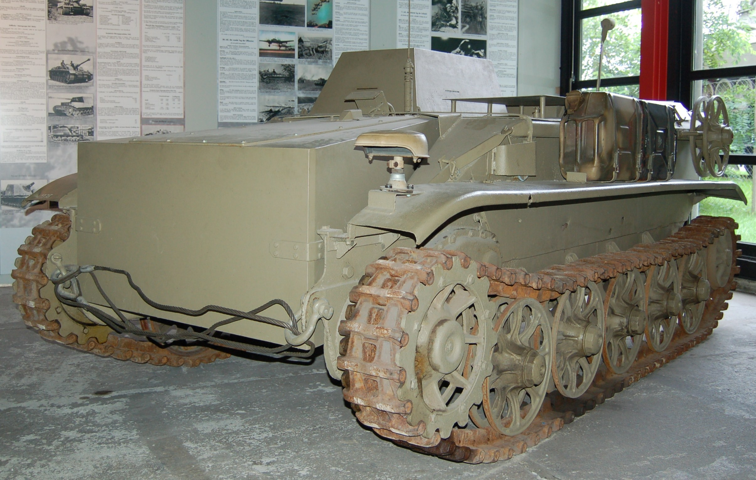 Borgward IV self propelled charge. German Tank Museum, Munster, Lower Saxony, Germany.